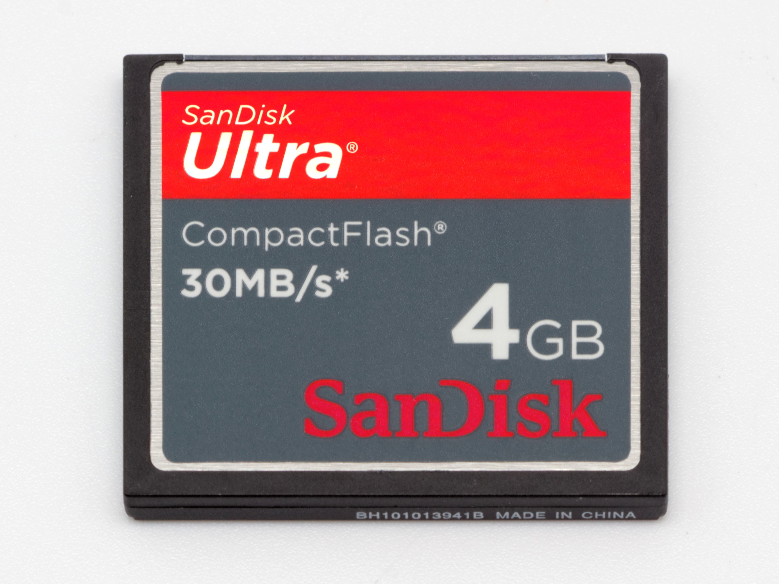 SANDISK Ultra CompactFlash card 4GB 30 MB/s